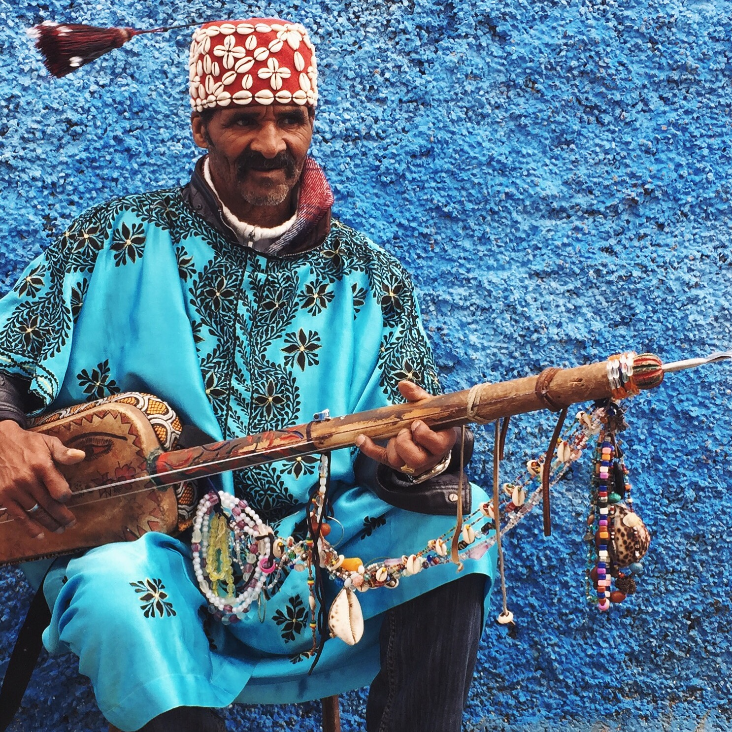 A gnawa performer dressed in traditional gnawa clothing in the Qasbat al-Widaya neighborhood of Rabat, Morocco.